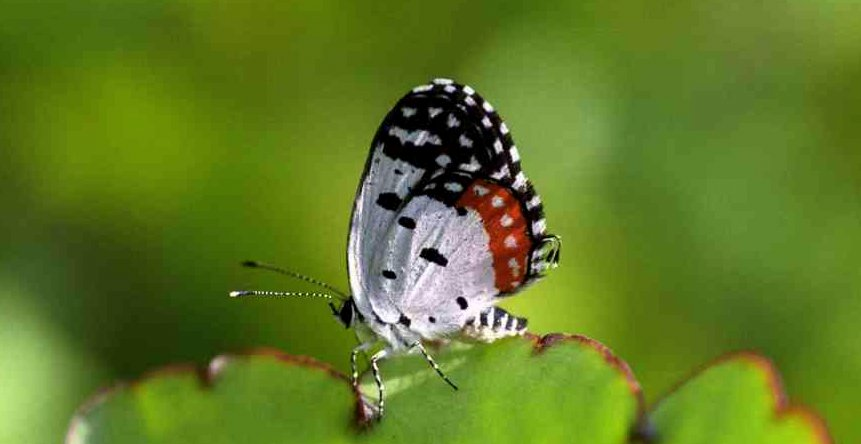 Red Pierrot(সাজুন্তি)Kolkata, West Bengal,India